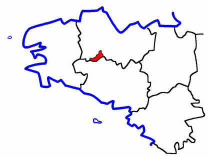 Description: Map for localisazion of cantons of Bretagne region in France Source: made by Hervé Tigier in april 2005 from another large map (published in 1990)